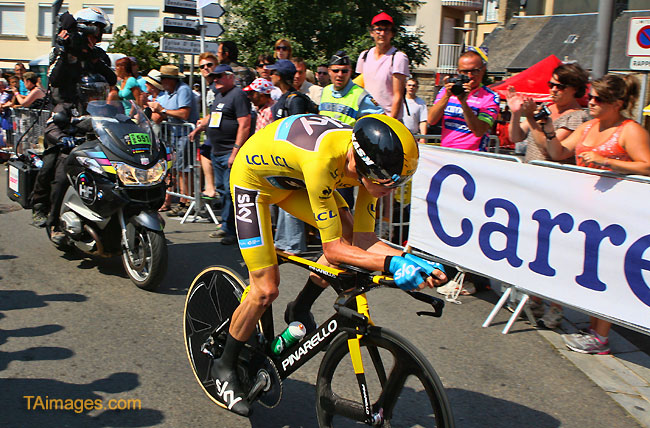 Yellow jersey holder, Chris Froome, tops the rise from the start of the time trial stage from Avranches to Mont Saint Michel; 10-Jul-2013